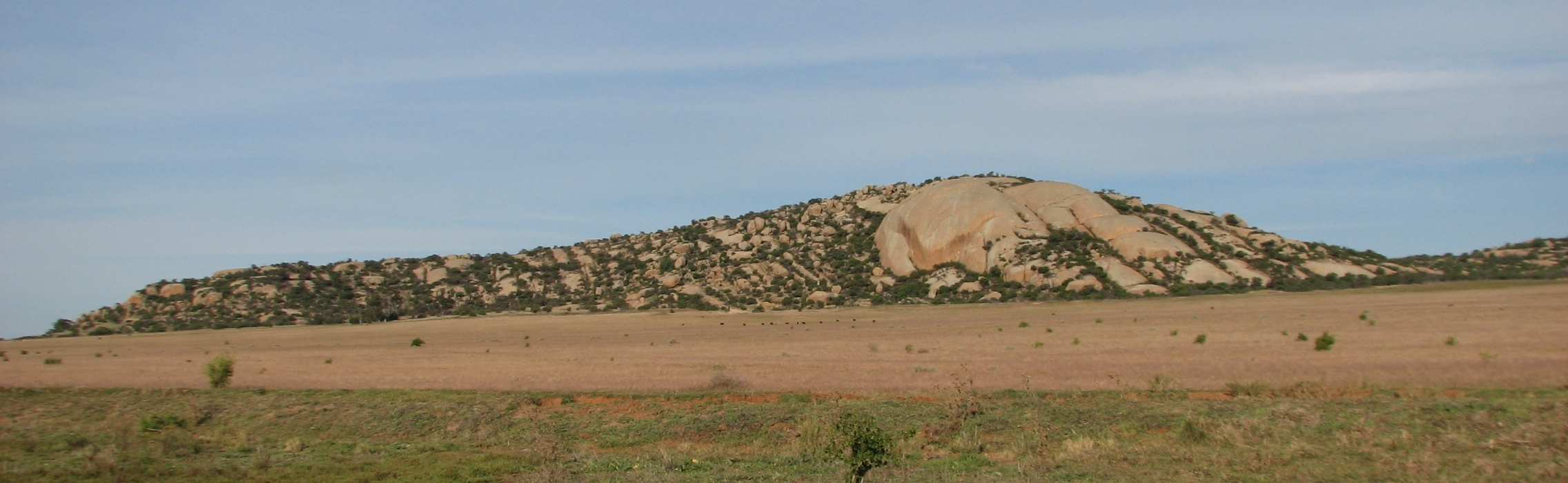 Mount Hope, Victoria, Australia. View from the north west.